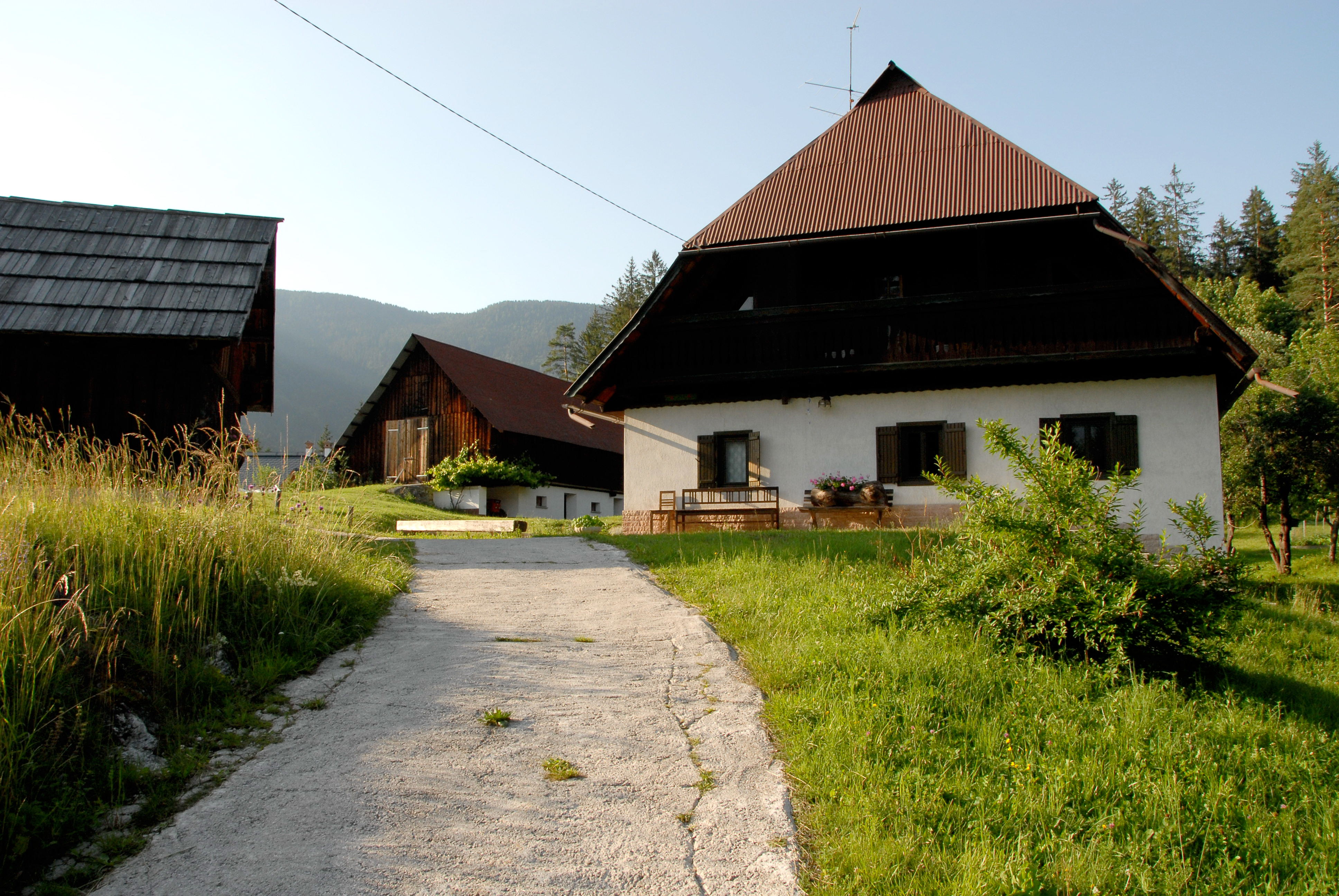 Village Oltreacqua-San Antonio, municipality Tarvisio, region Friuli Venezia-Giulia, Italy